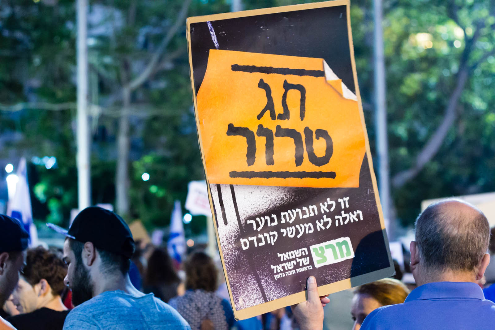 Peace Now demonstration in Rabin Square following the murder of toddler Ali Saad Dawabsha and the stabbing of 6 people in the Jerusalem gay pride parade, which led to the death of 16-year-old Shira Banki. Meretz sign says, in relation to Price Tag attacks, "Terror Tag. This is not a youth movement, and these are not pranks"